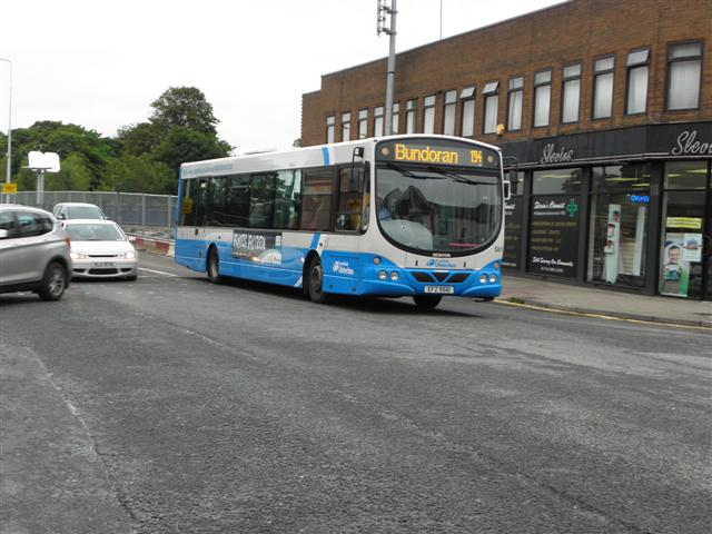 Translink Bus, Omagh. Pictured at the Dublin Road corner, heading to Bundoran in Donegal.